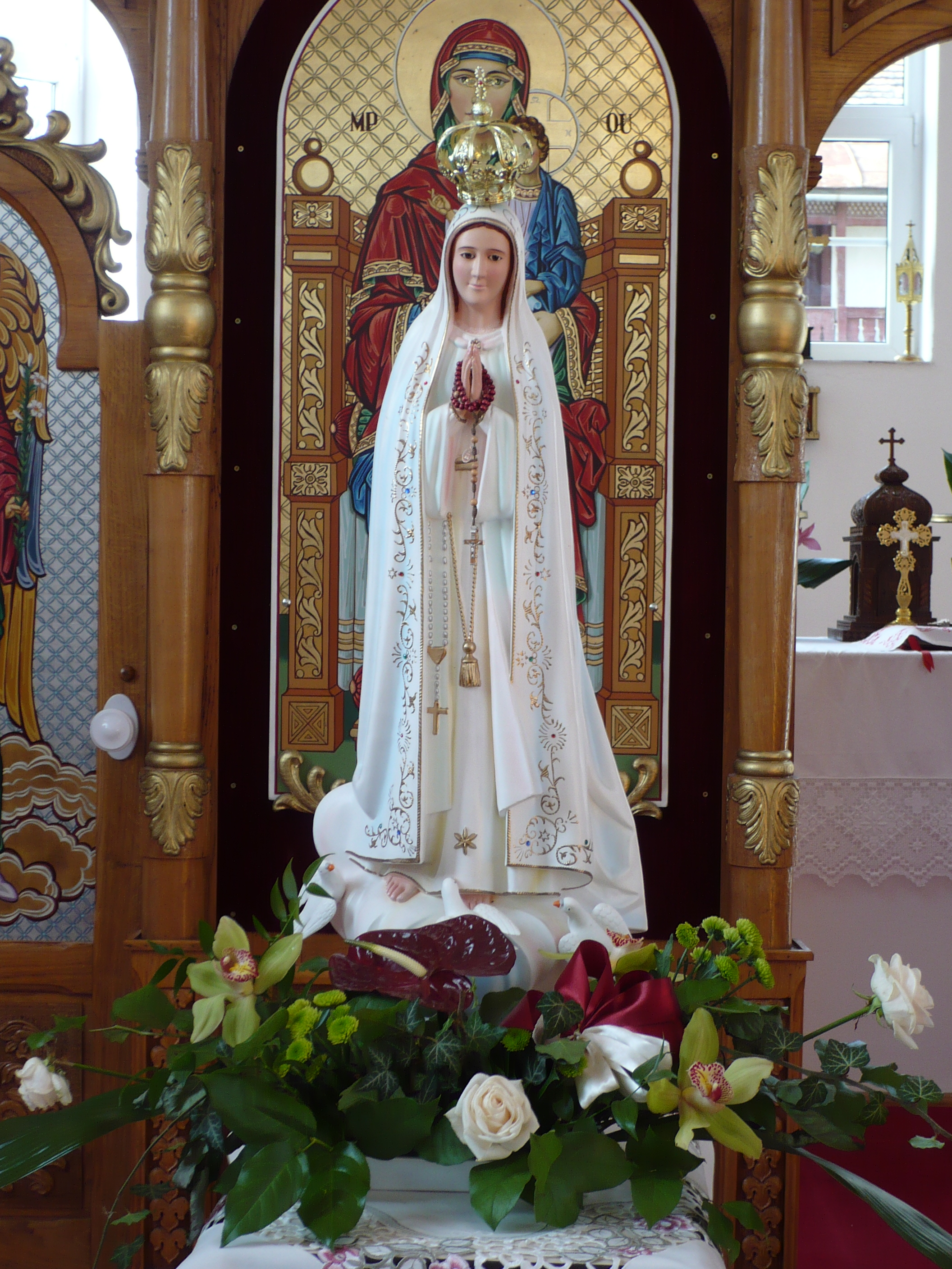 St. Mary